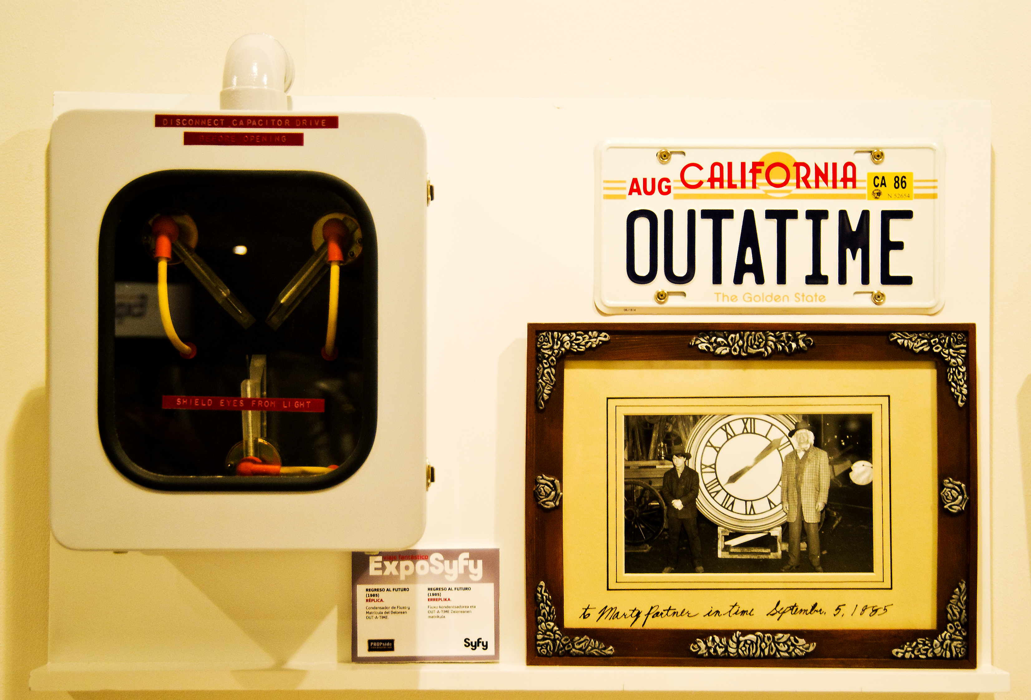 Props from Back to the Future film saga displayed at ExpoSYFY, San Sebastián, Spain. Flux capacitor replica Delorean Vanity plate OUT-A-TIME replica Original photograph from Back to the Future Part III (1990)